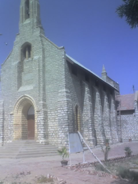 Christ church kotri